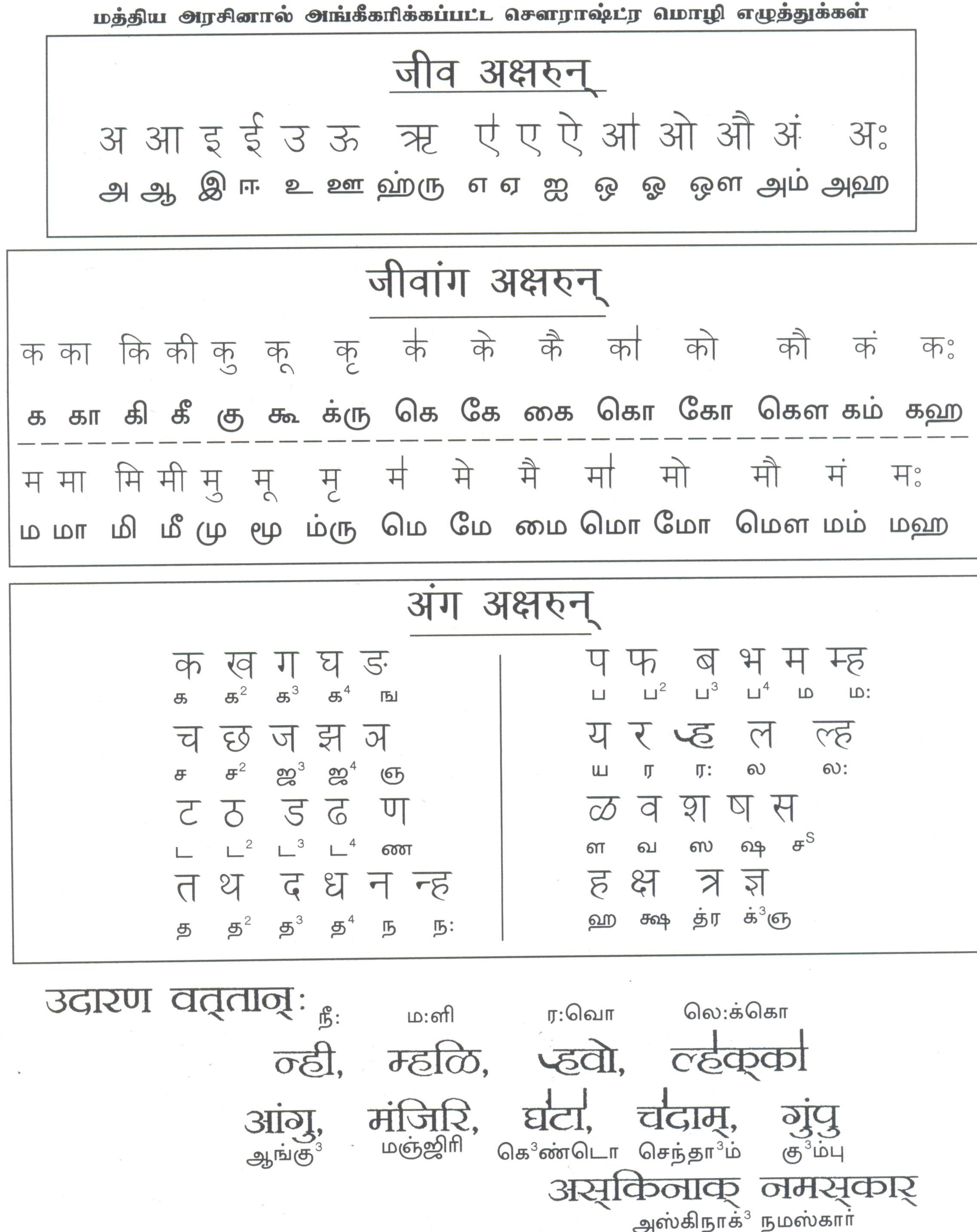 Vowel and consonant chart with short symbol of Devanagari script to write Sourashtra language